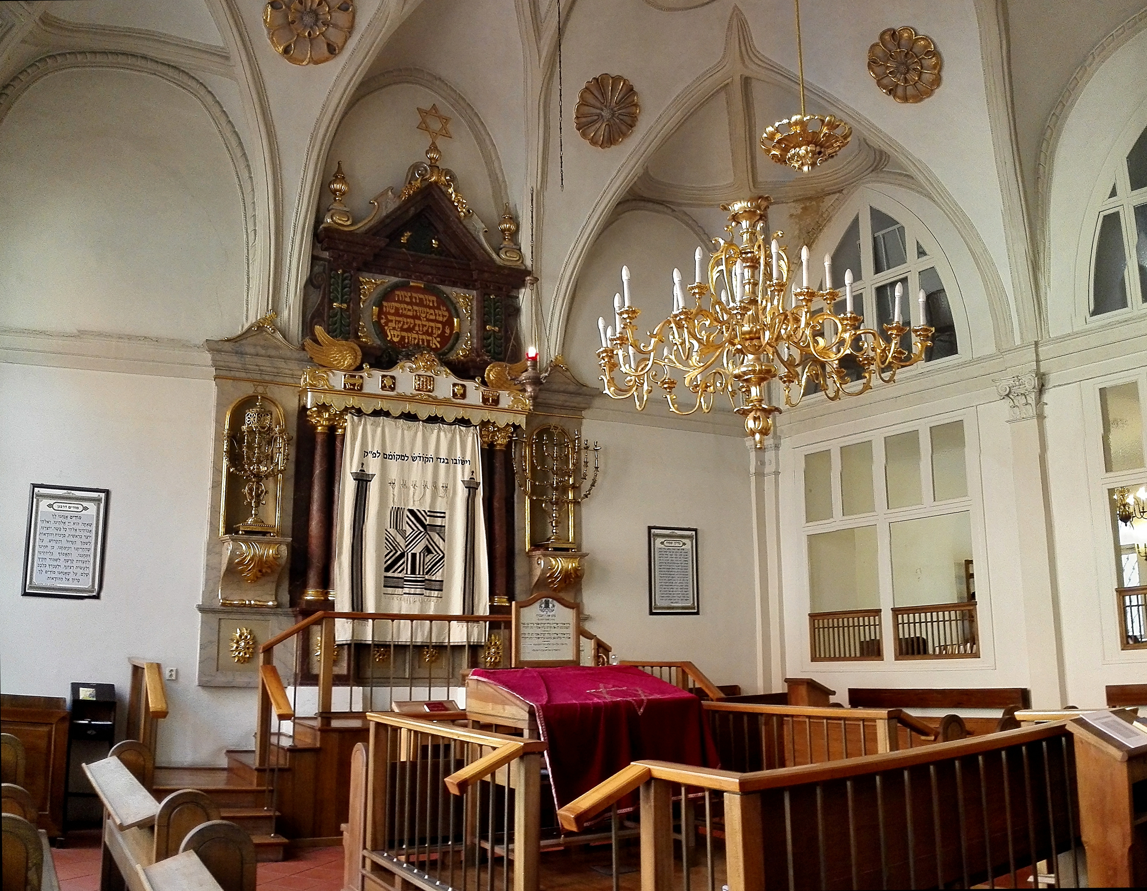 Interior of the Vysoká synagogue (Prague, Czechia).